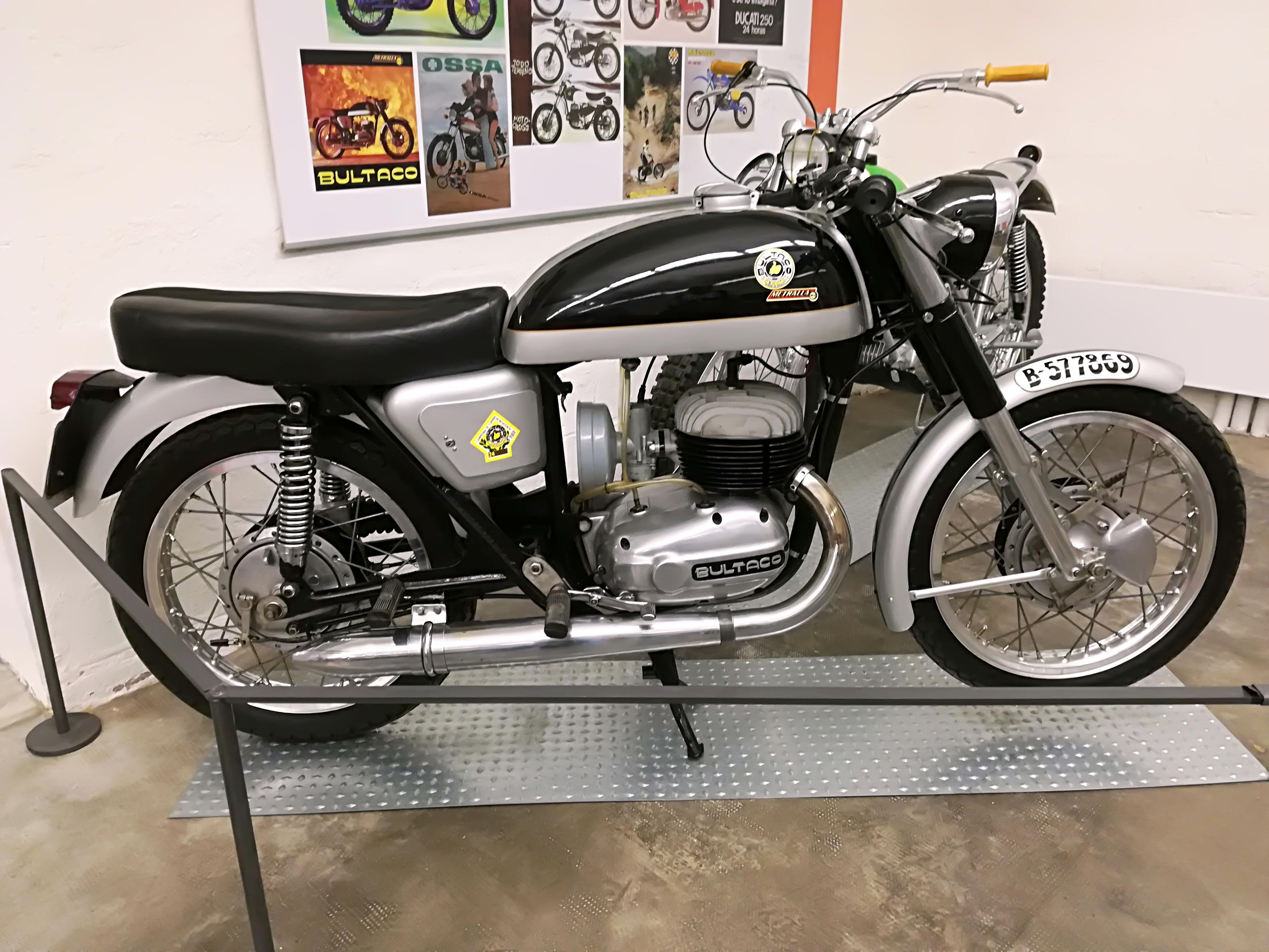 Bultaco Metralla MK2 250cc (1966). Museu de la Moto de Barcelona (Catalonia).